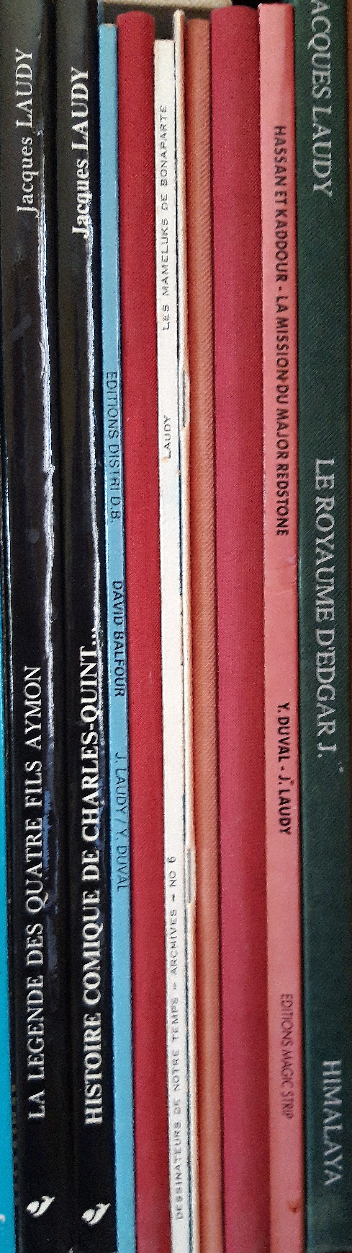 Laudy books.